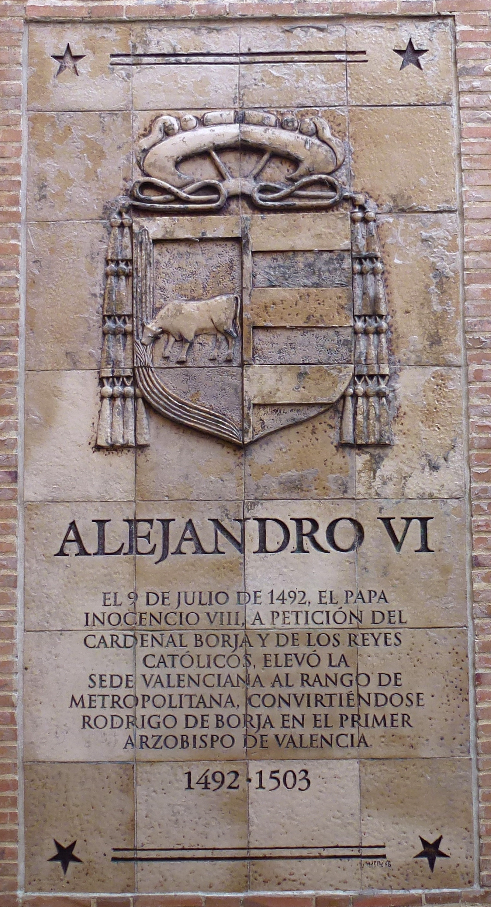 Plaque on Alejandro VI on the side of the Archbishop's Palace, Valencia.